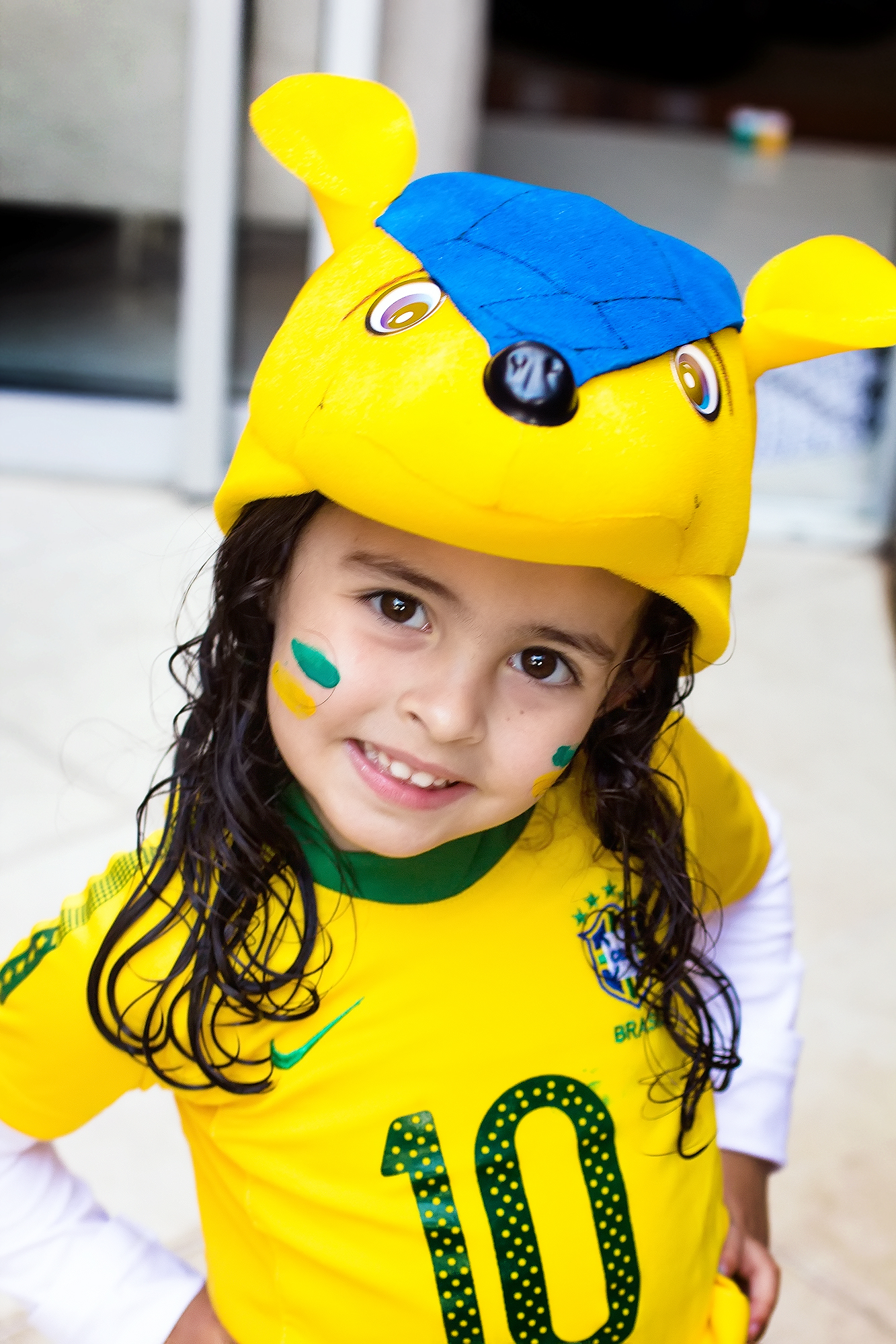 Cameroon and Brazil match at the FIFA World Cup 2014-06-23, Estádio Nacional Mané Garrincha, Brasília.